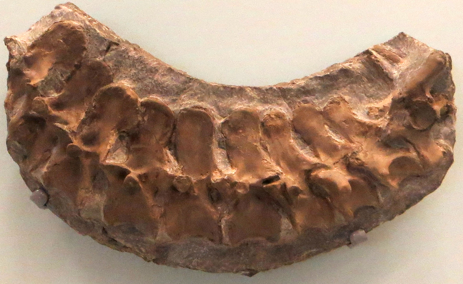 Series of dorsal vertebrae including one posterior cervical vertebra of Tanystropheus conspicuus (Diapsida: Archosauromorpha) from the Middle Triassic of southern Germany in right lateral view, displayed at the Museum am Löwentor, Stuttgart